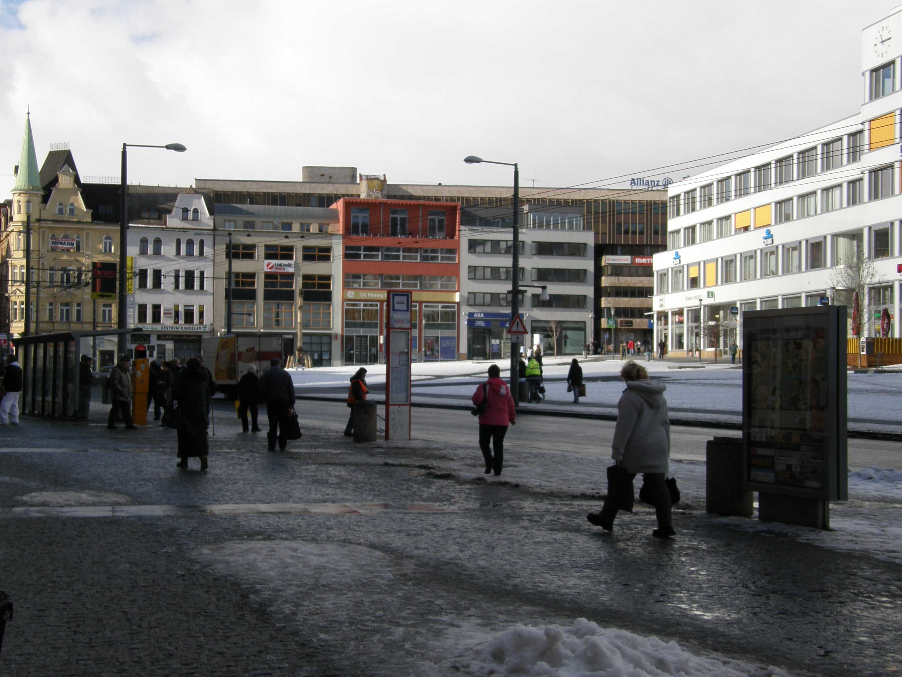 Main square in the North Bohemian city of Ústí nad Labem.